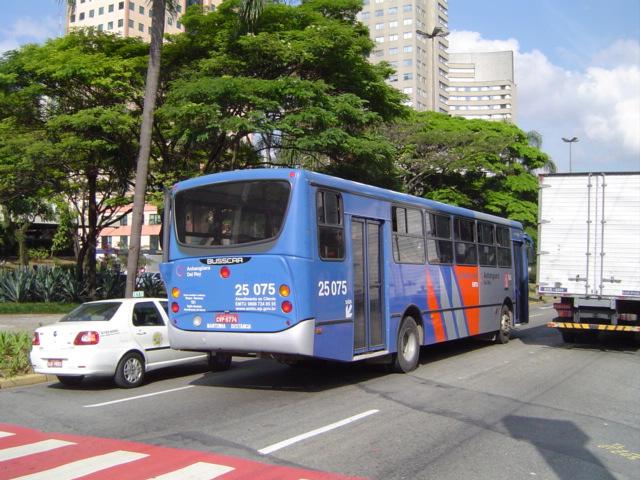 Busscar Urbanuss Pluss bus (#25 075) with unknown chassis in Alphaville, Barueri-SP, Brazil. AlphaVille Urbanismo S.A. operator.